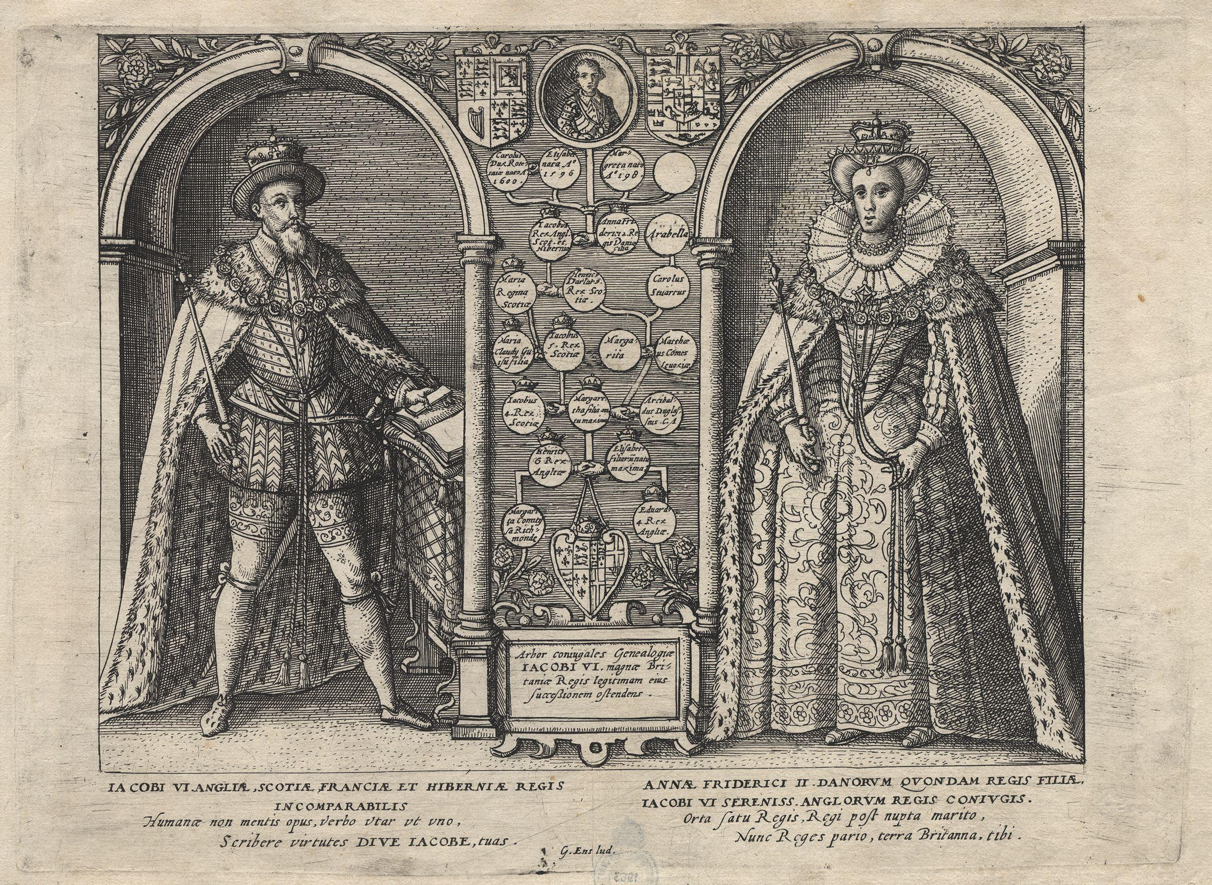 King James I of England and VI of Scotland; Henry, Prince of Wales; Anne of Denmark, by unknown artist. All images in this batch have an unknown author, but there is strong evidence it was first published before 1923 (based mainly on the NPG's estimated date of the work).